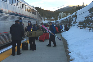 The Winter Park Express at Winter Park station in January 2018